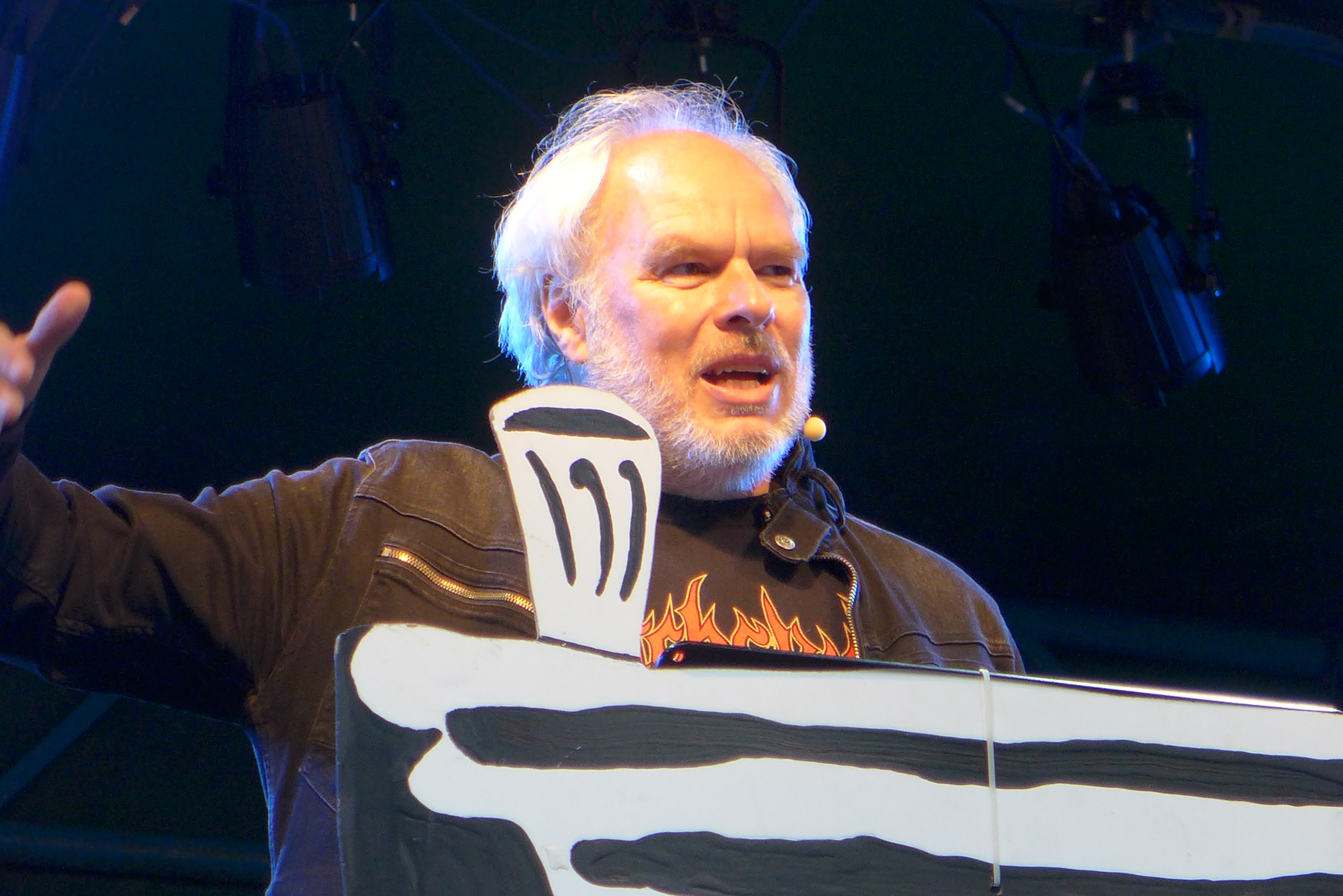 De Nederlandse dichter Nico Dijkshoorn tijdens zijn optreden op het poëziefestival 'Het Tuinfeest' in Deventer op 1 augustus 2015.